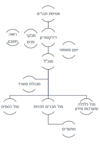 Tali schema